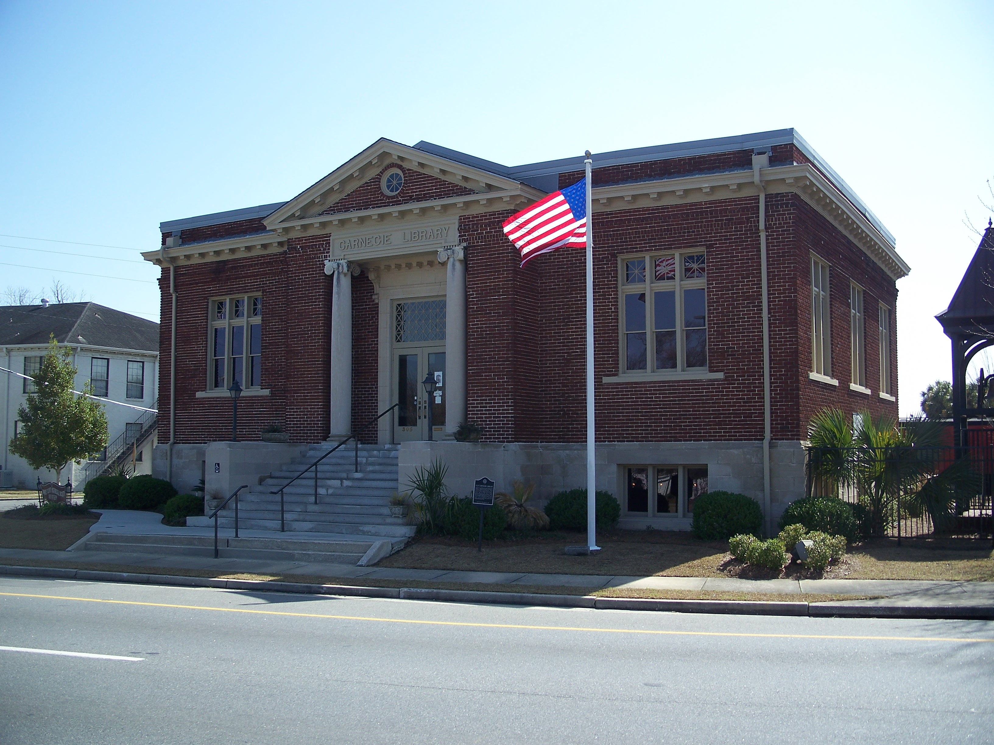 Valdosta, Georgia: Carnegie Library of Valdosta, now a history museum.